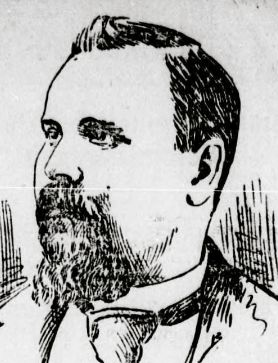 Head sketch of James Ashman, a Los Angeles City Council member (born 1848)